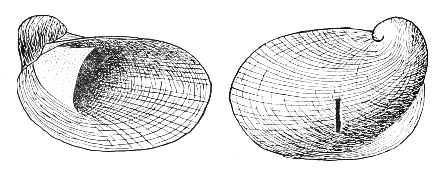 drawing of shells of the shoal sprite (Amphigyra alabamensis)